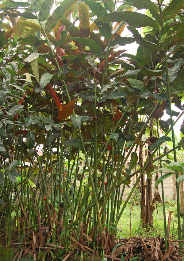 Torch ginger Etlingera hemisphaerica, habits. Darmaga, Bogor, West Java.